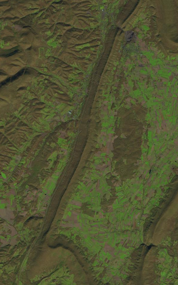 Landsat image of Dunning Mountain, a ridge in Bedford and Blair Counties, Pennsylvania. The gap near the top of the image is McKee Gap. The ridge in the lower right corner is Tussey Mountain.